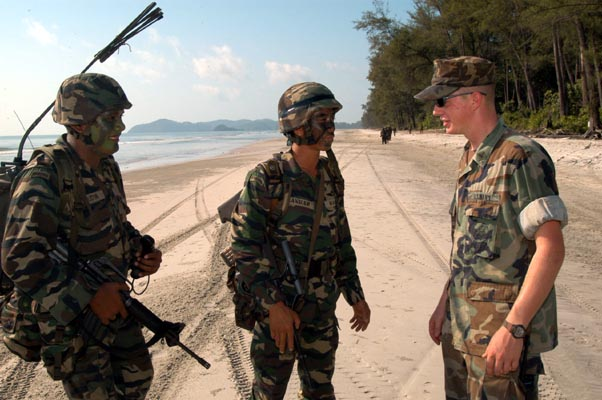 040720-N-4104L-035 Mersing, Malaysia (July 20, 2004) – Construction Mechanic 3rd Class Michael Klinegardner, a member of the Beachmaster Unit (BMU) One, detachment Western Pacific's craft control team, explains his role in landing craft, air cushioned (LCAC) operations to landing force members of the Royal Malay Regiment (RMR). The BMU’s craft control team clears debris and sets up navigation markers for inbound LCACs. Two LCACs transported 150 RMR troops, embarked in USS Fort McHenry (LSD 43), during an amphibious assault as part of the Malaysia phase of exercise Cooperation Afloat Readiness and Training (CARAT).